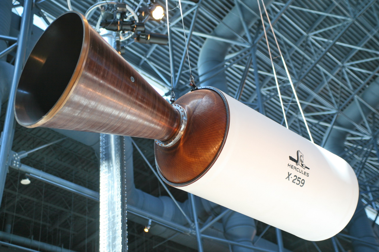 Antares X259 rocket stage.